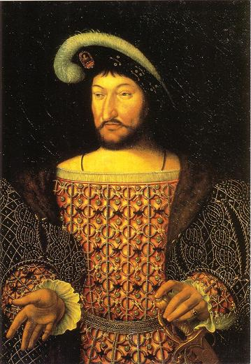 Francis I, king of France. Early 16th century. Oil on panel (?).